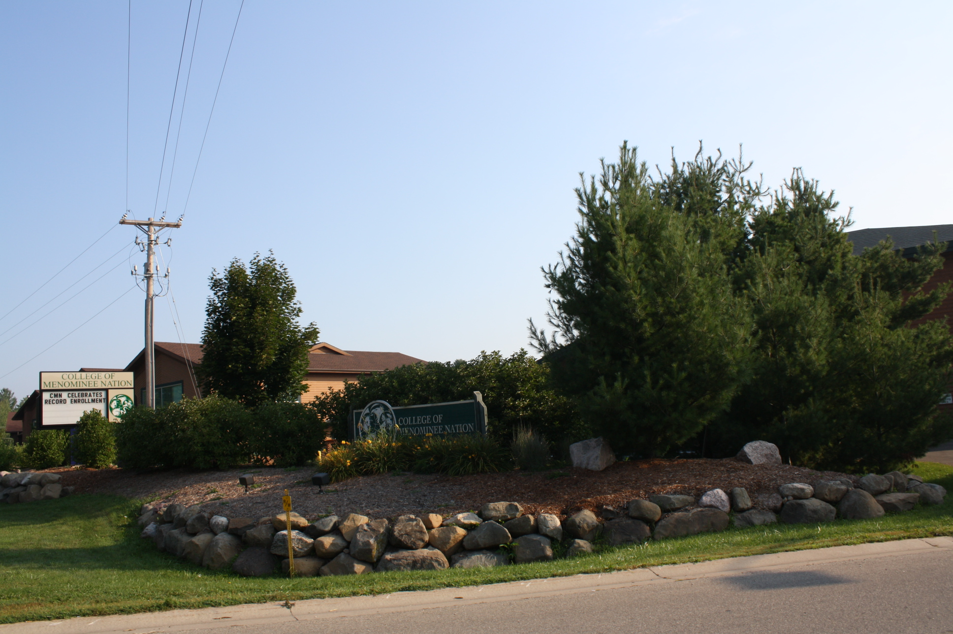 Looking at the entrance for the College of the Menominee Nation in Menominee County, Wisconsin along Wisconsin Highway 55.